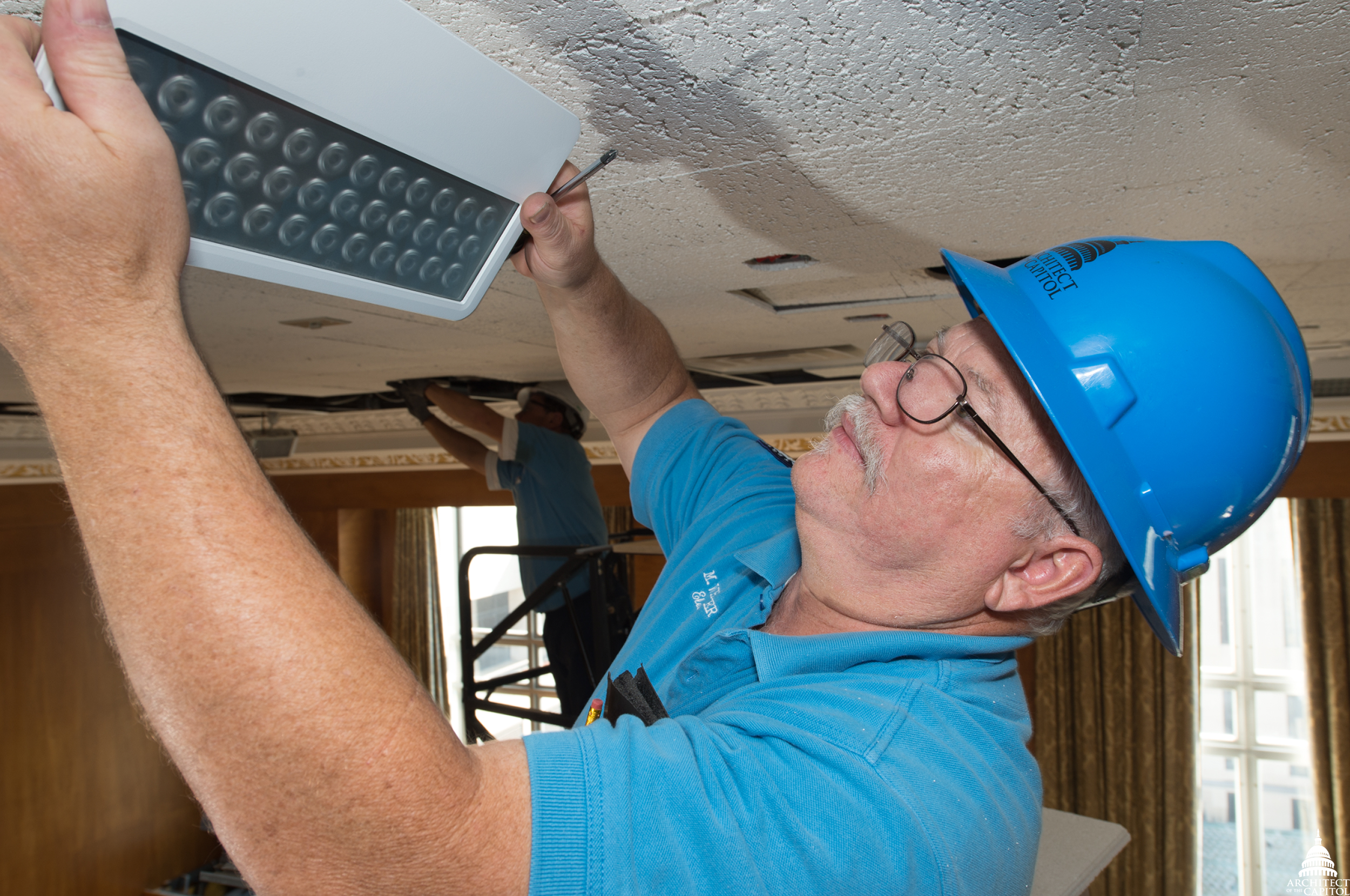 One of the key energy-saving initiatives in the Senate Office Buildings is an emphasis on energy-efficient lighting. Over the past several years, nearly 44,000 lighting fixtures in the Senate buildings have been retrofitted with high-efficiency lamps, ballasts, controls and reflectors — resulting in an estimated annual savings of nearly $750,000. Full story from Tholos at One Team, One Energy Reduction Mission.